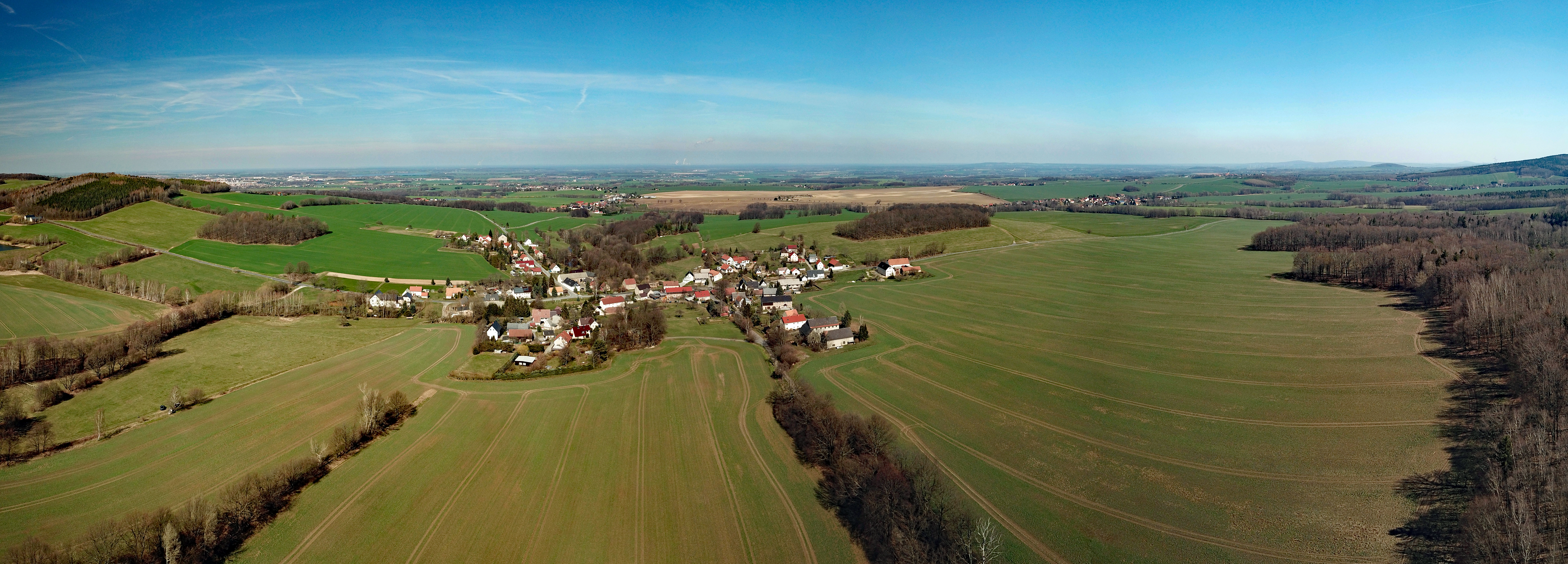 Rachlau (Kubschütz, Saxony, Germany) Hornjoserbsce: Powětrowy wobraz Rachlowa pod Čornobohom Dieses Foto wurde mit einem Quadcopter innerhalb der RMZ des Flugplatzes EDAB aufgenommen. Der Flugleiter wurde am Aufnahmetag telephonisch über Ort und Zeit informiert und hat zugestimmt. Der Flug erfolgte auf Grundlage der Allgemeinverfügung der Landesdirektion Sachsen zur Erteilung der Betriebserlaubnis für unbemannte Luftfahrtsysteme und Flugmodelle gemäß § 21a LuftVO und Zulassung von Ausnahmen von Betriebsverboten gemäß § 21b LuftVO für den Freistaat Sachsen.